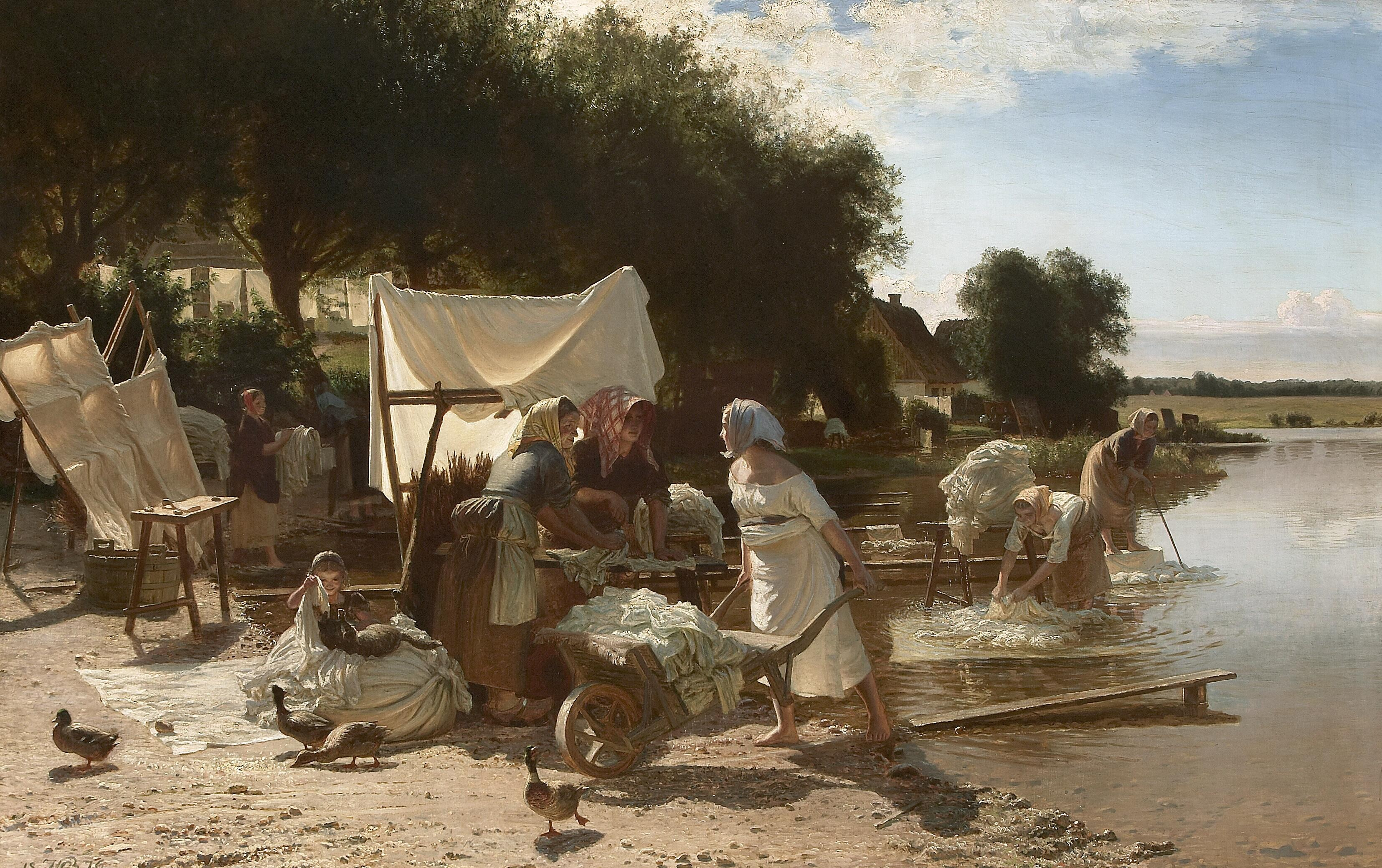 The laundries in Sørup on the southeastern shores of Lake Esrum, Denmark - Source